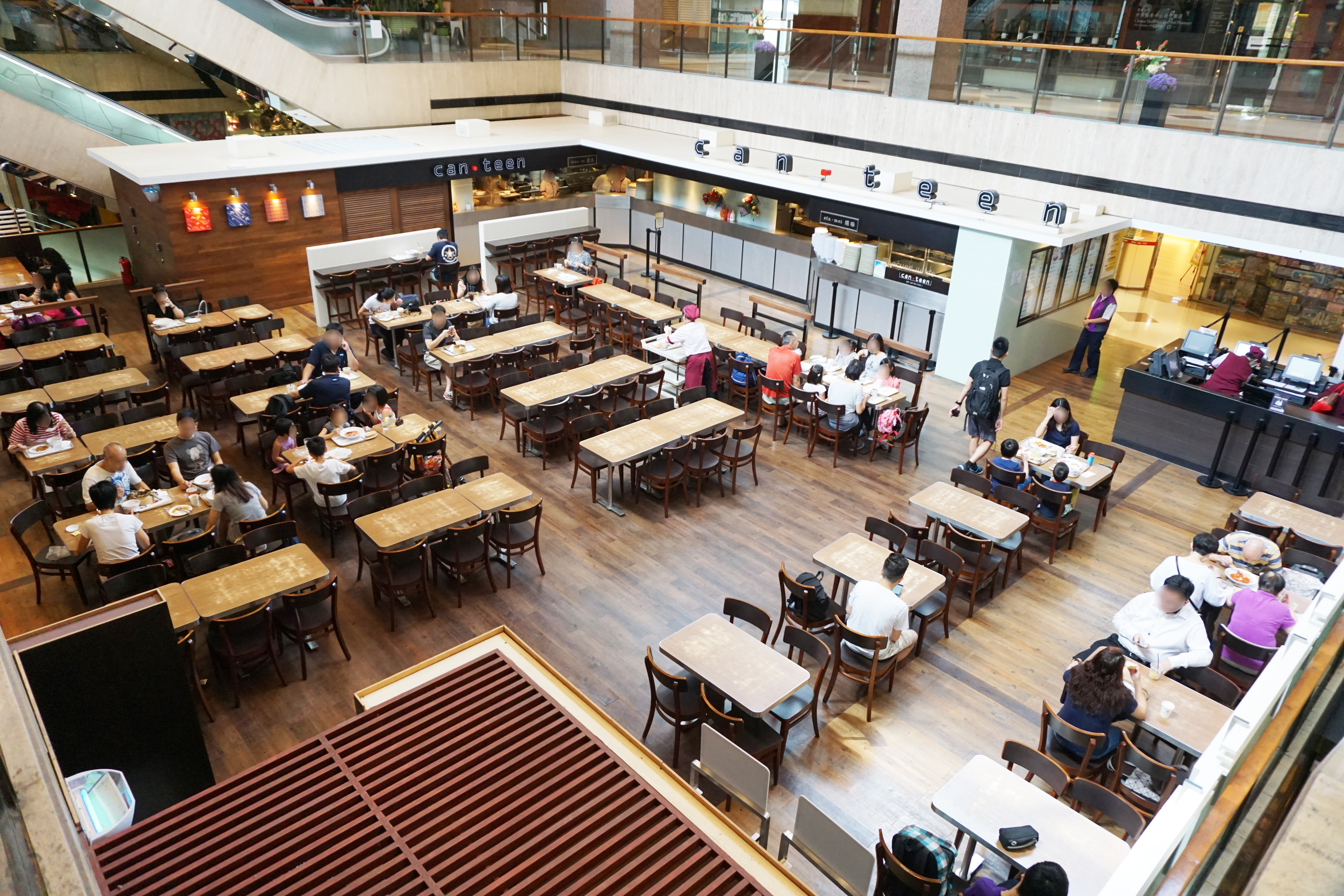 Can．teen in Admiralty, Hong Kong.